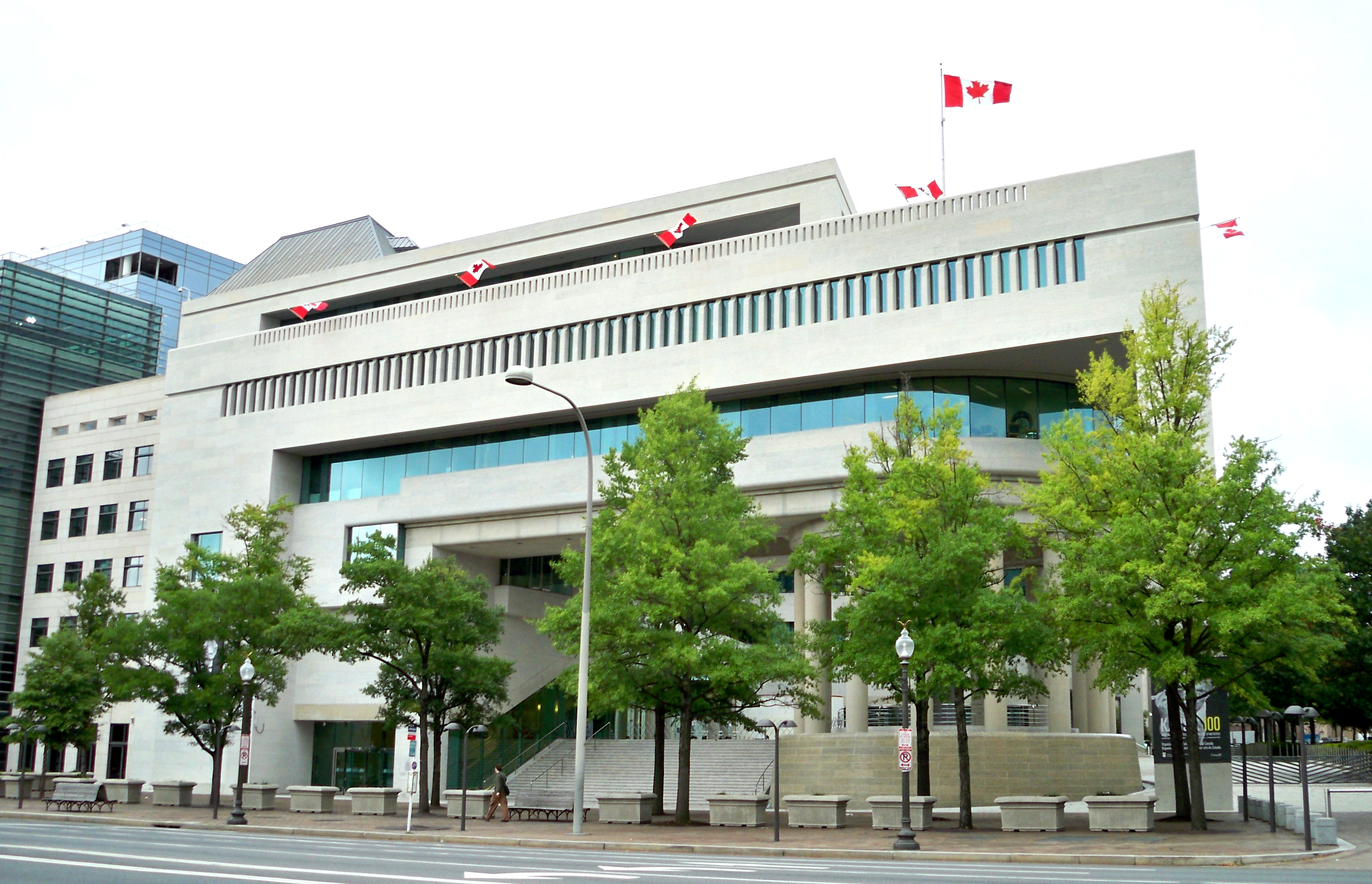 The Canadian Embassy on Pennsylvania Avenue in Washington, DC.